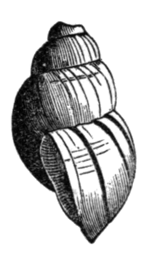 drawing of the shell of Campeloma decisum